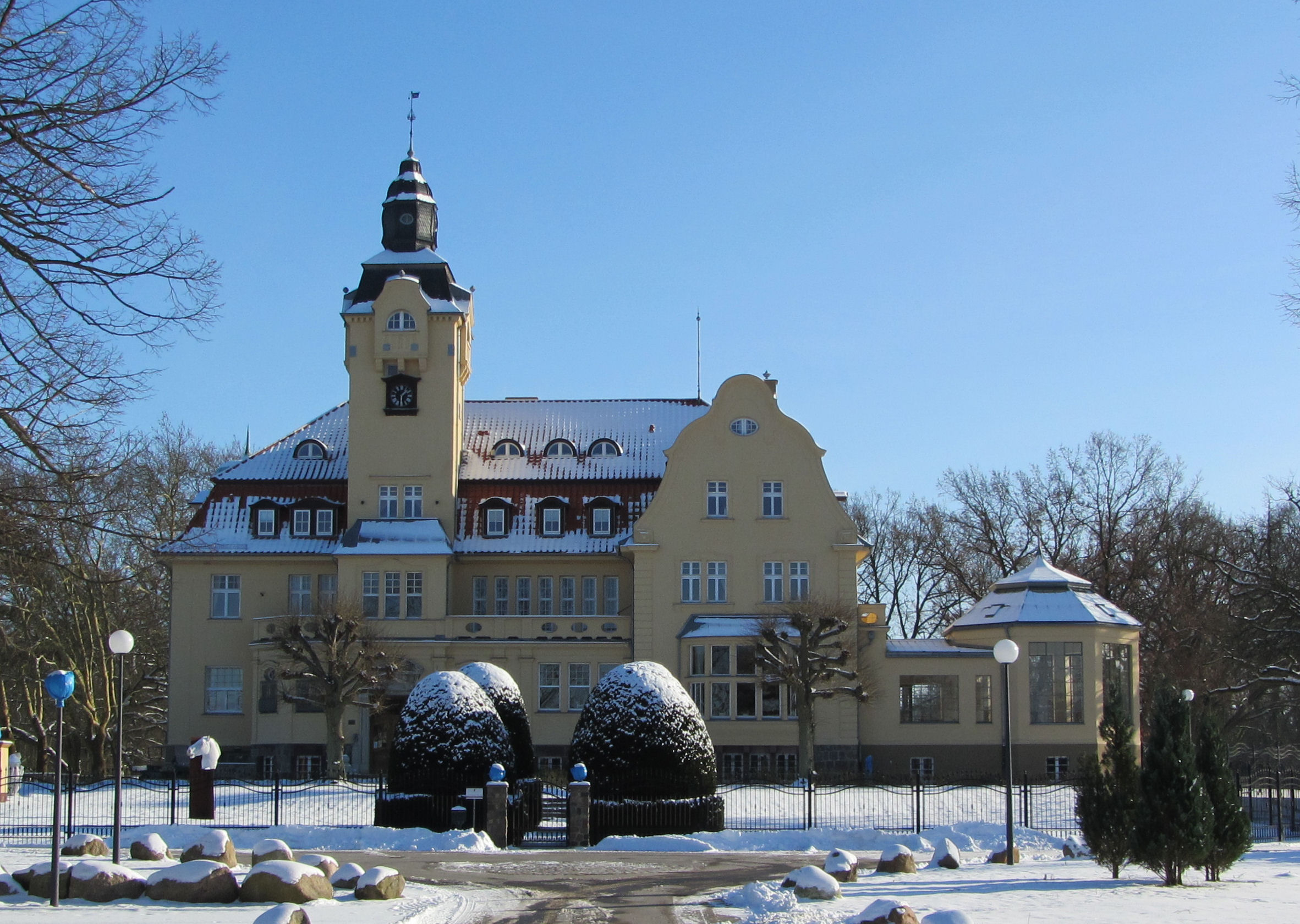 Manor house in Wendorf, district Ludwigslust-Parchim, Mecklenburg-Vorpommern, Germany